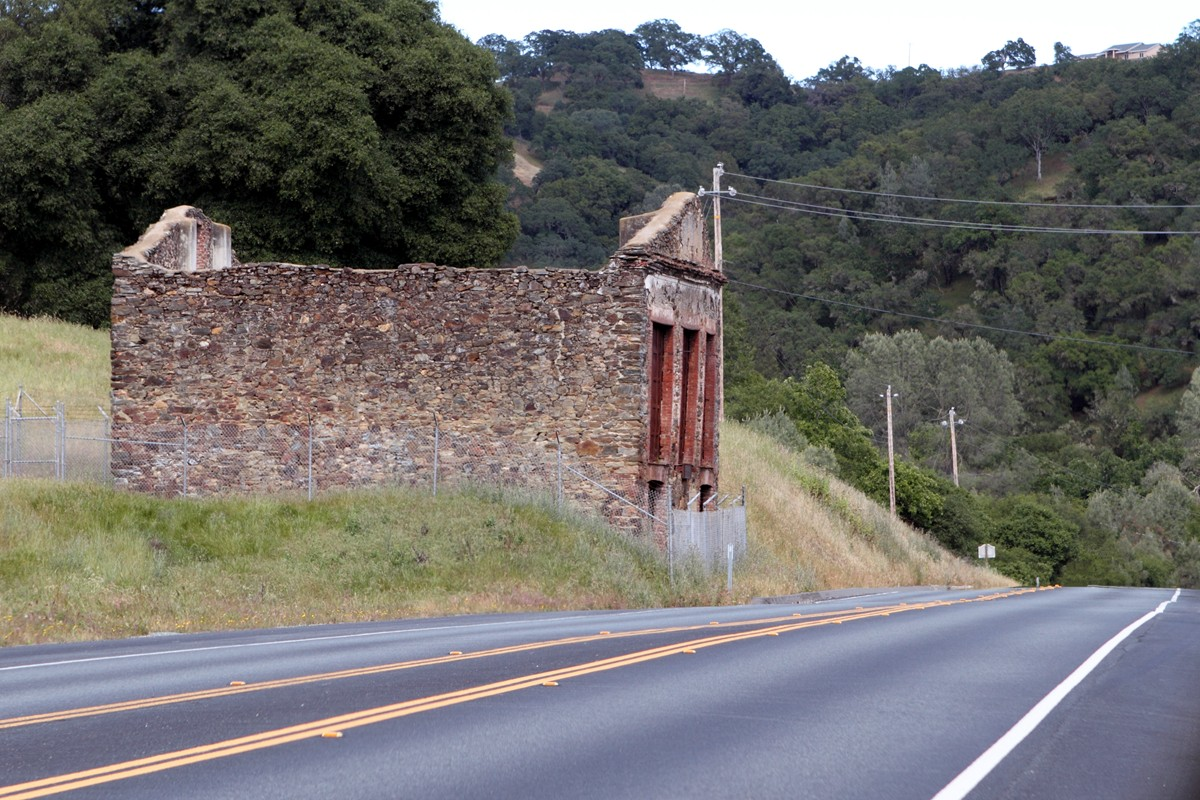 The Butte Store (built 1857) ruins — on Hwy 49, a California Historical Landmark in Amador County, California.